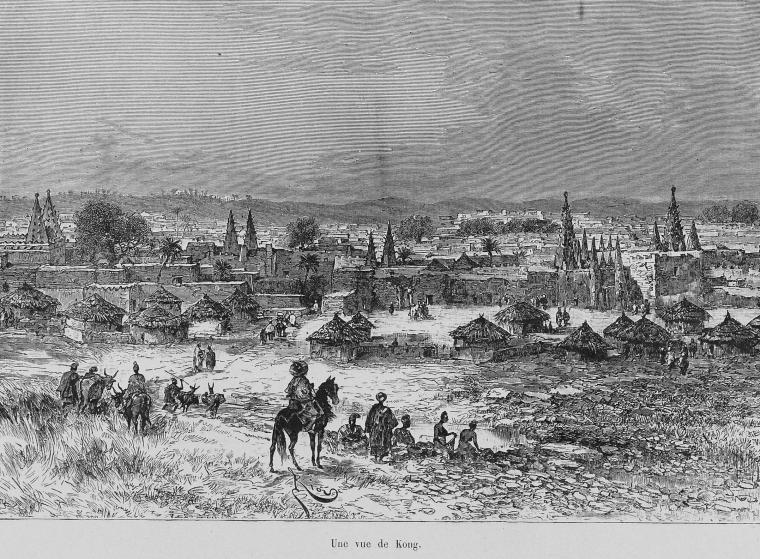 View of Kong with buildings of traditional baked-mud Sudano-Sahelian architecture, and the sub-Saharan Sahel—tropical Savanna belt region, in northern Côte d'Ivoire.